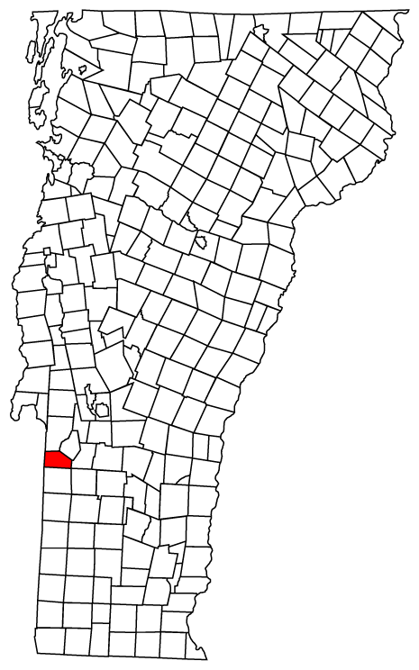 Description: Map of Vermont towns with Wells highlighted Source: Map created by Jared C. Benedict on 26 March 2004. Copyright: © Jared C. Benedict.